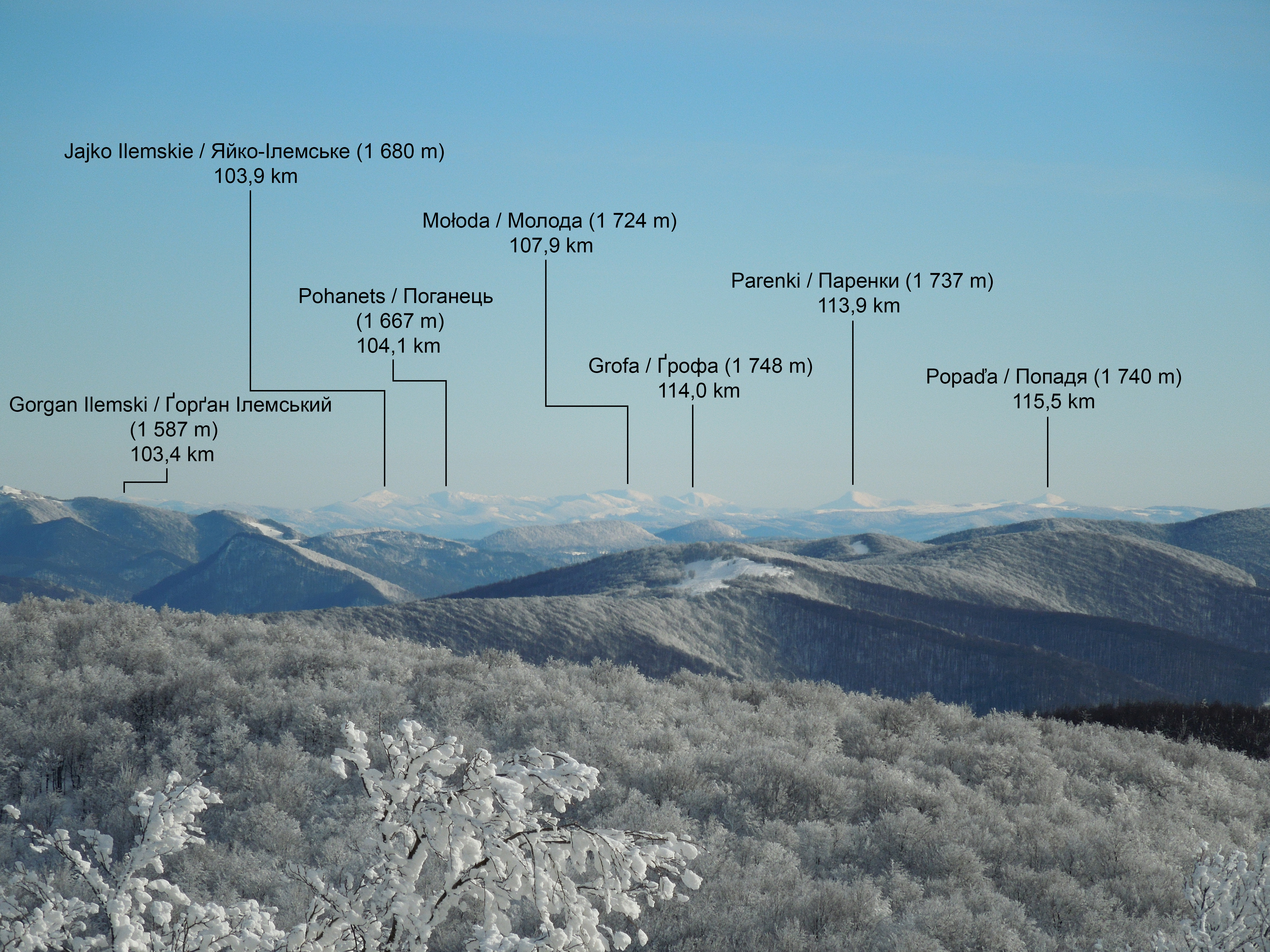 View of the Ukrainian peaks located in the Gorgany Mountains from peak Kamenná lúka